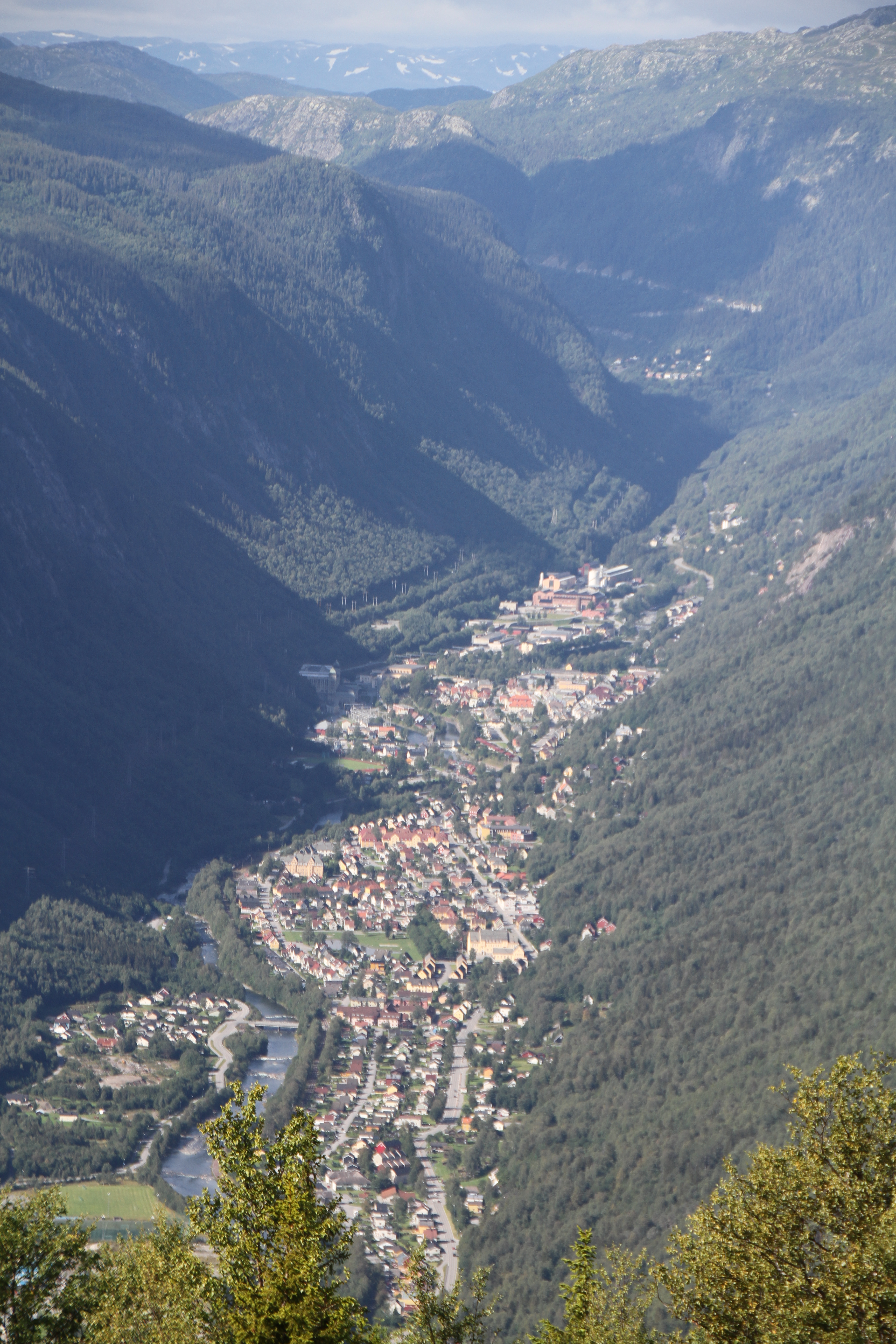 Panorama over Rjukan city (Tinn municipality) in the county of Telemark, Norway